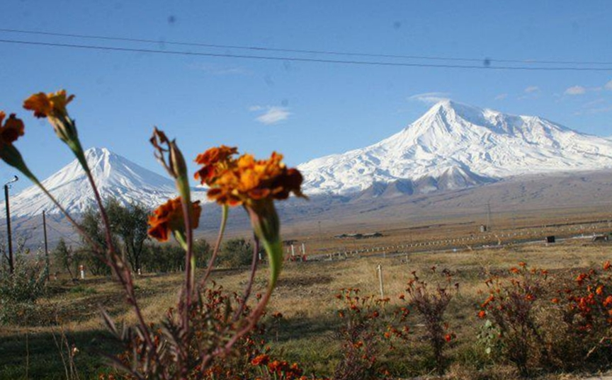 IĞDIR ARALIK AŞAĞI ÇİFTLİK AĞRI DAĞLARI